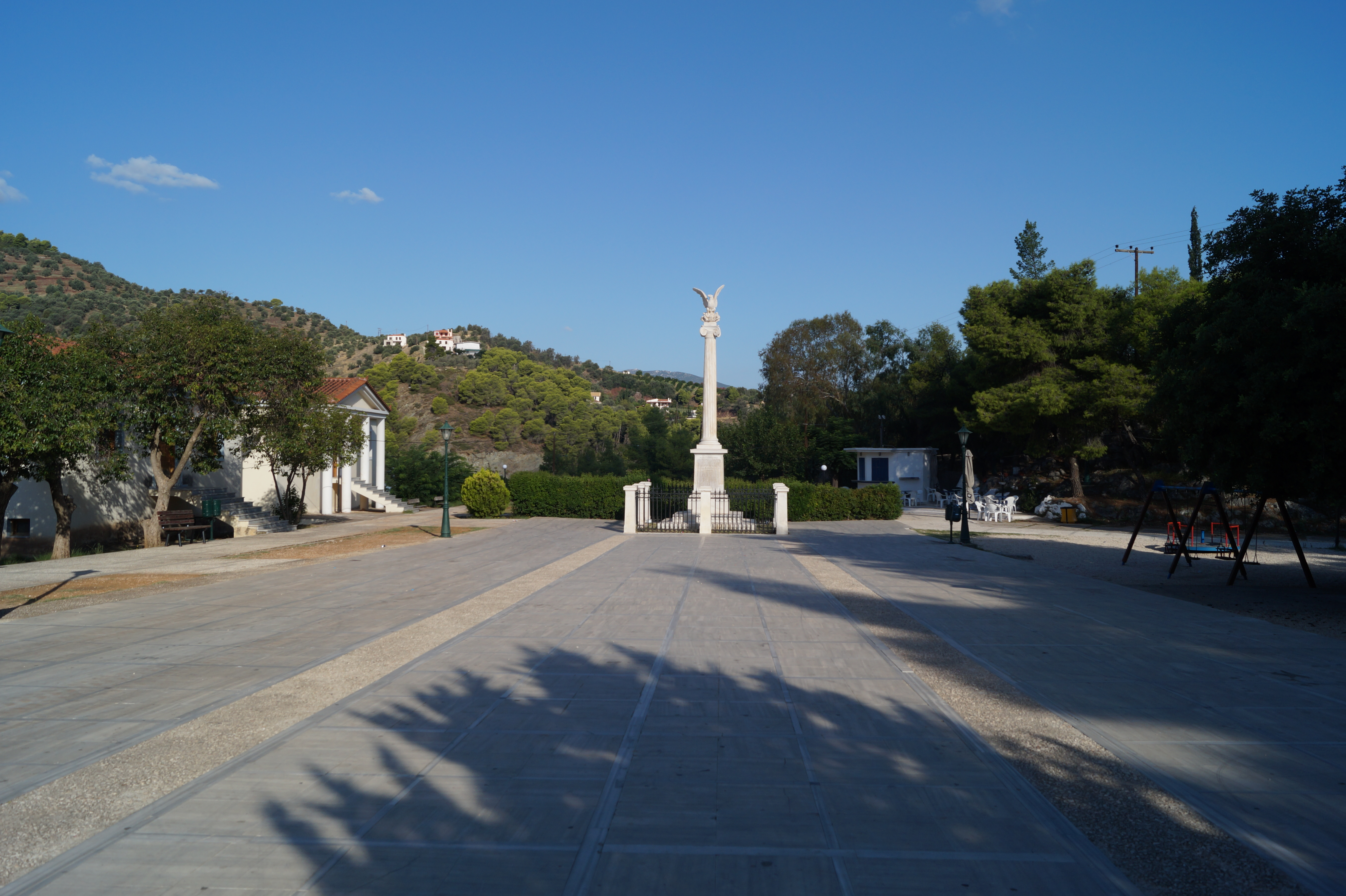 Nea Epidavros, Argolida, Greece: Site of the First Greek National Assembly in 1822.